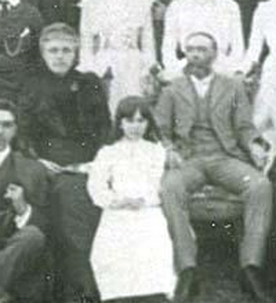 Robert and Kate Maddrell of Bedervale, NSW, circa 1900